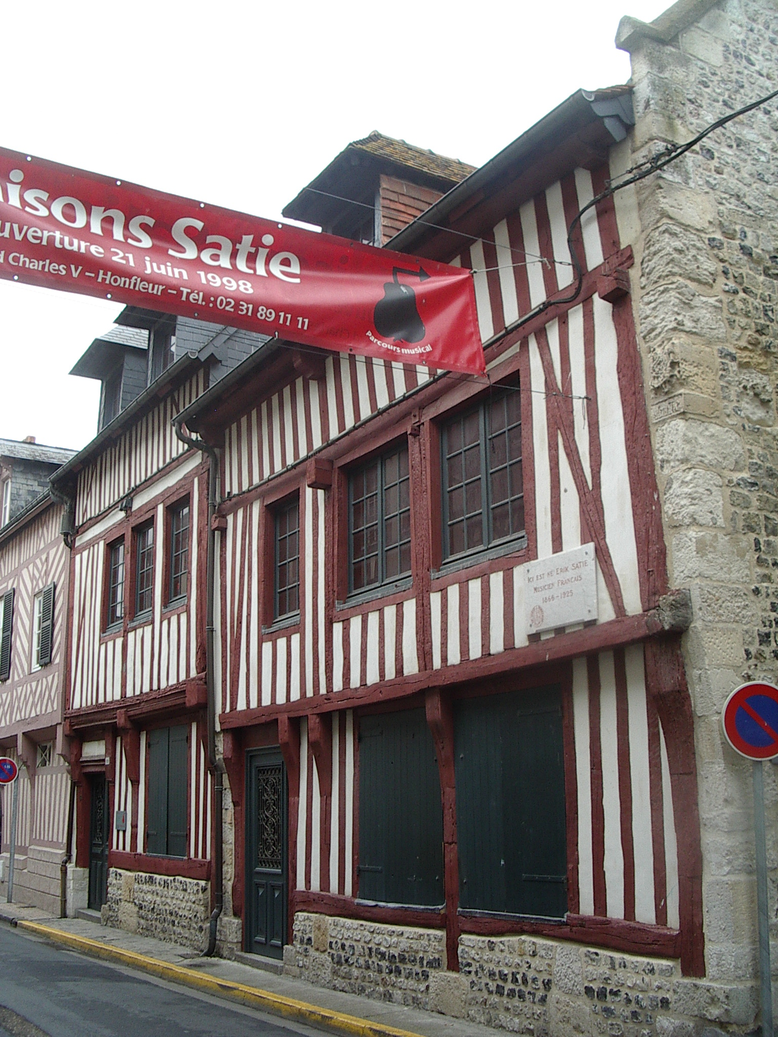 Maisons Satie, the home museum of Erik Satie in Honfleur, France.